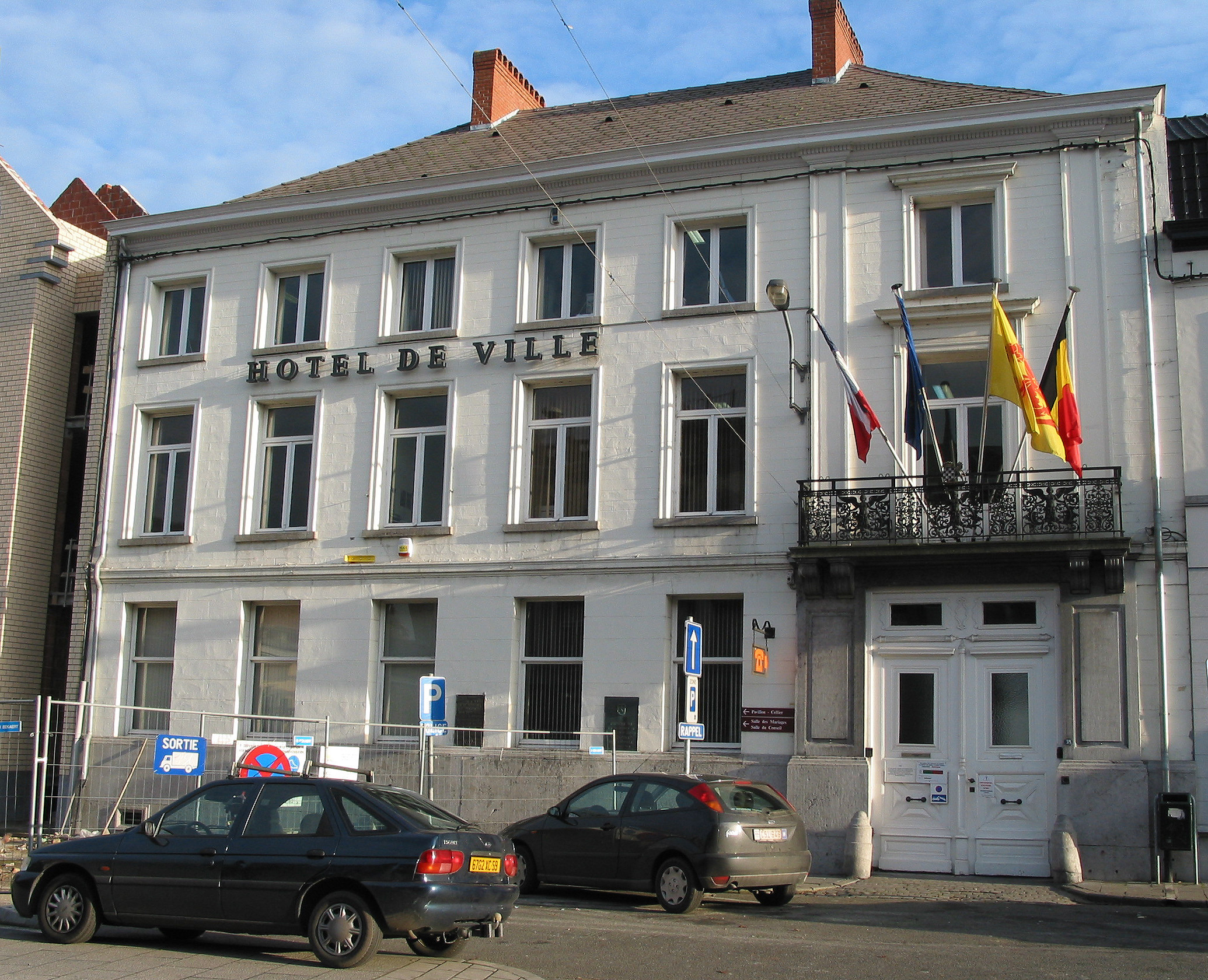 Péruwelz (Belgium), the town hall.